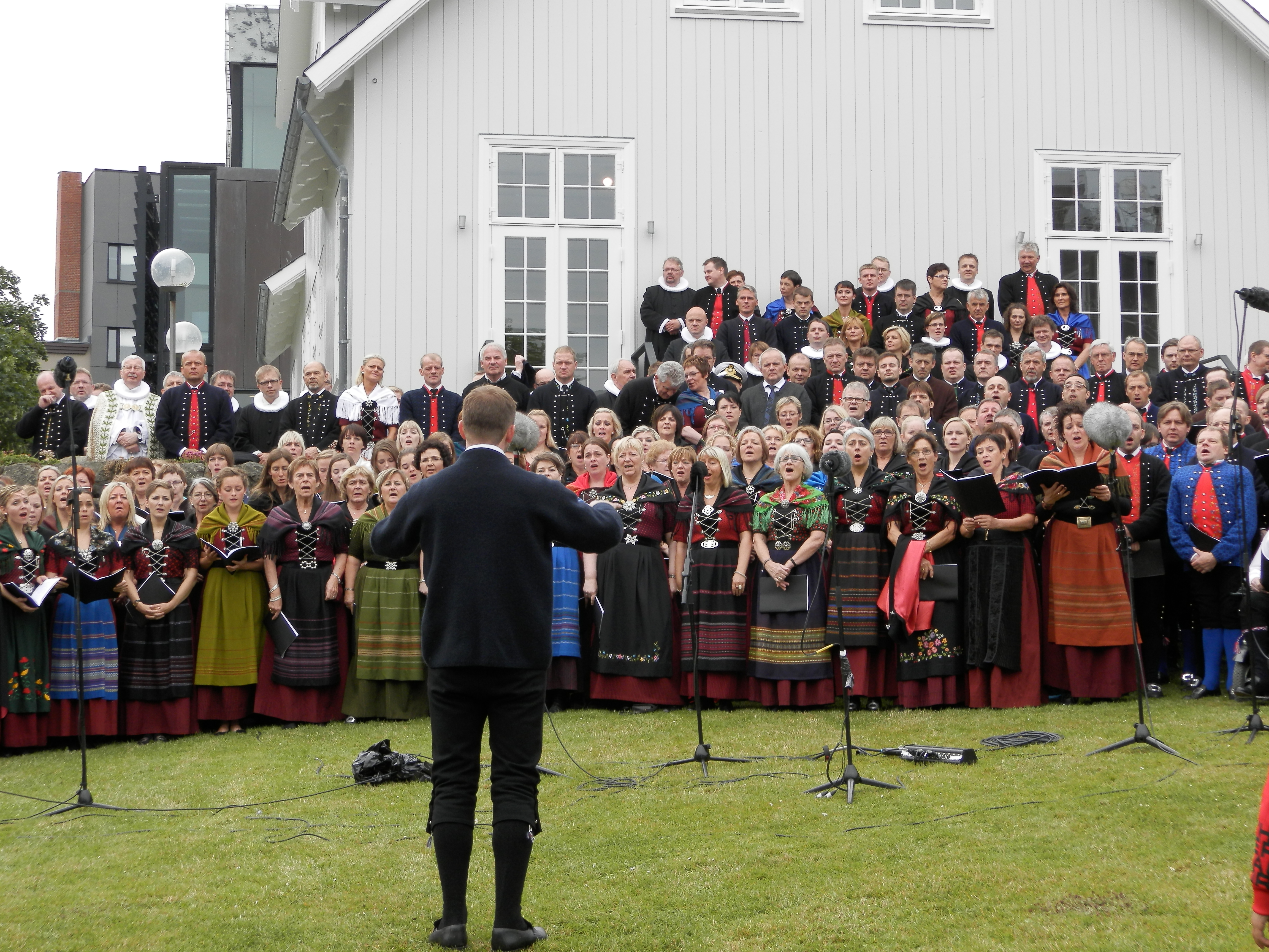 The Faroese Løgting (Parliament) is very old, the Løgting dates back to around year 1000. Today the Løgting has 33 members and the Landsstýri (government) has 8 members. The Løgting opens on the national day at 29 July every year. It is tradition to celebrate the national day which is called Ólavsøka with various activities, cultural events, exhibitions and sports events, the largest of these is the final rowing competition. On 29 July there is a parade from the Løgting House to the Cathedral where all of the priests of the Faroes and all the politicians and the High Commissioner of Denmark (ríkisumboðsmaður) participate. After the service in the church they walk back in procession to the Løgting House (Parliament building) and gather in front of the building together with a large choir from the the whole country. The choir sings some songs and the ceremony ends with everyone singing the national anthem of the Faroe Islands "Tú alfagra land mítt". After the ceremony the politicians go into the Løgting House, where the prime minister (Løgmaður) helds his speech (Løgmansrøðan). Føroyskt: Føroyskir politikarar, prestar, danska ríkisumboðið og eitt stórt kór frammanfyri Løgtingshúsið á Tinghúsvøllinum í Havn Ólavsøkudag 2012.